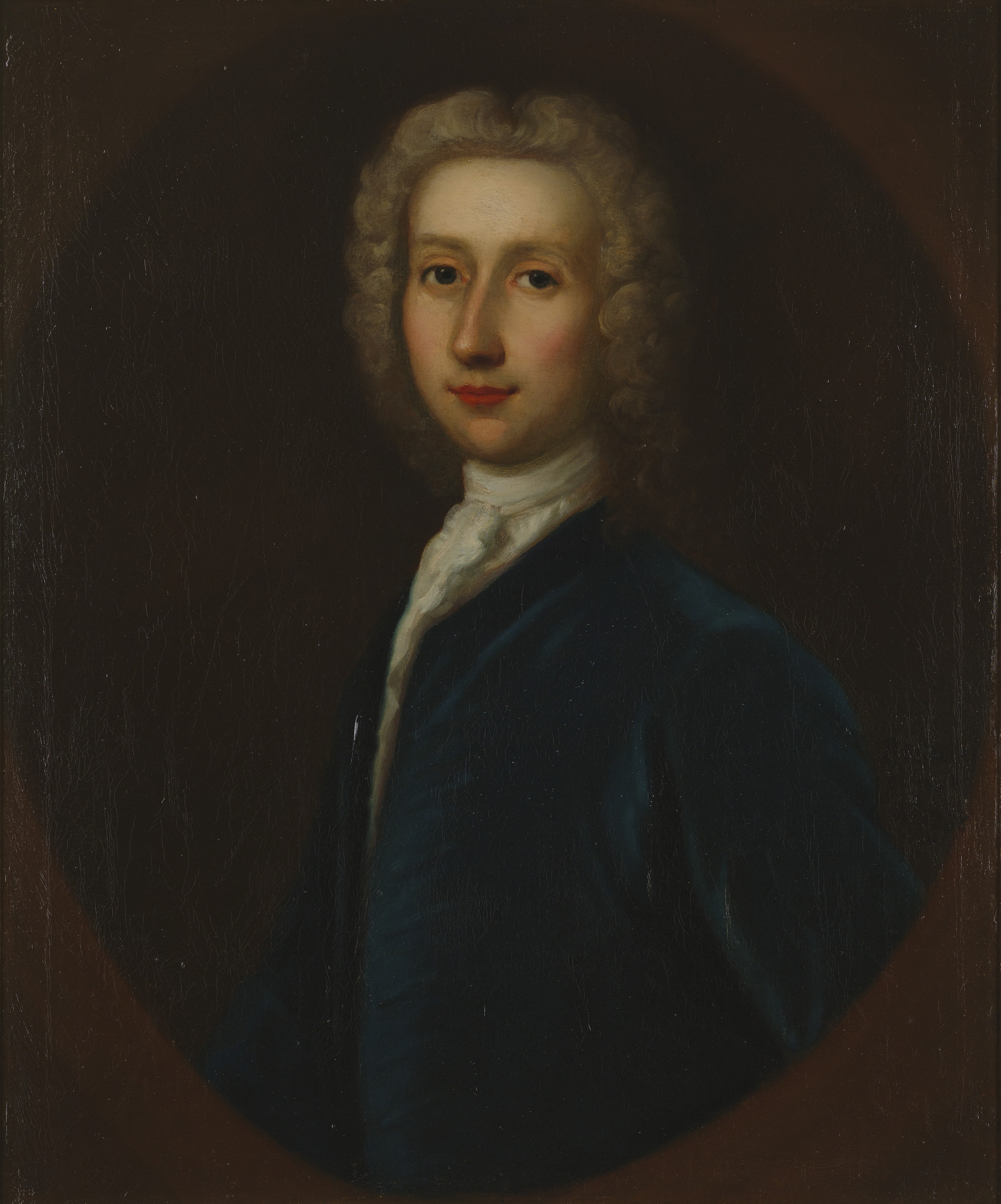 Robert Whytt. Oil painting by G.B. Bellucci, 1738. Iconographic Collections Keywords: Giovanni Battista Bellucci; Robert Whytt